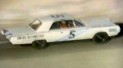 The only white Chrysler Turbine Car, driven by company engineer George Stecher, stars in the 1964 B-move The Lively Set. In the film, the car was actually credited among the human actors' cast.